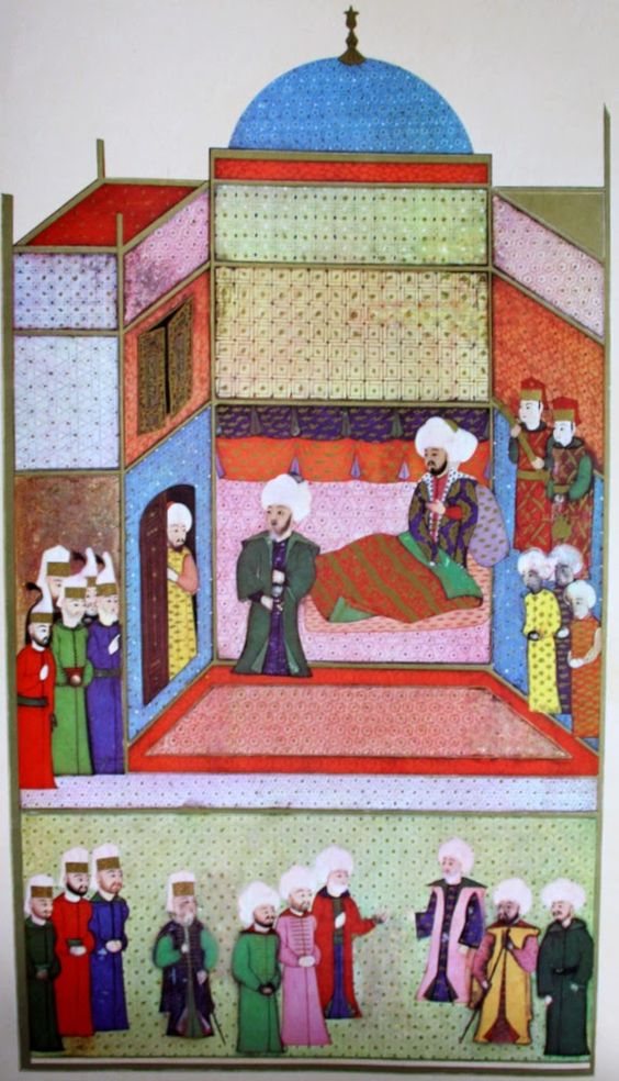 Ottoman Sultan Mehmed I on his death bed.